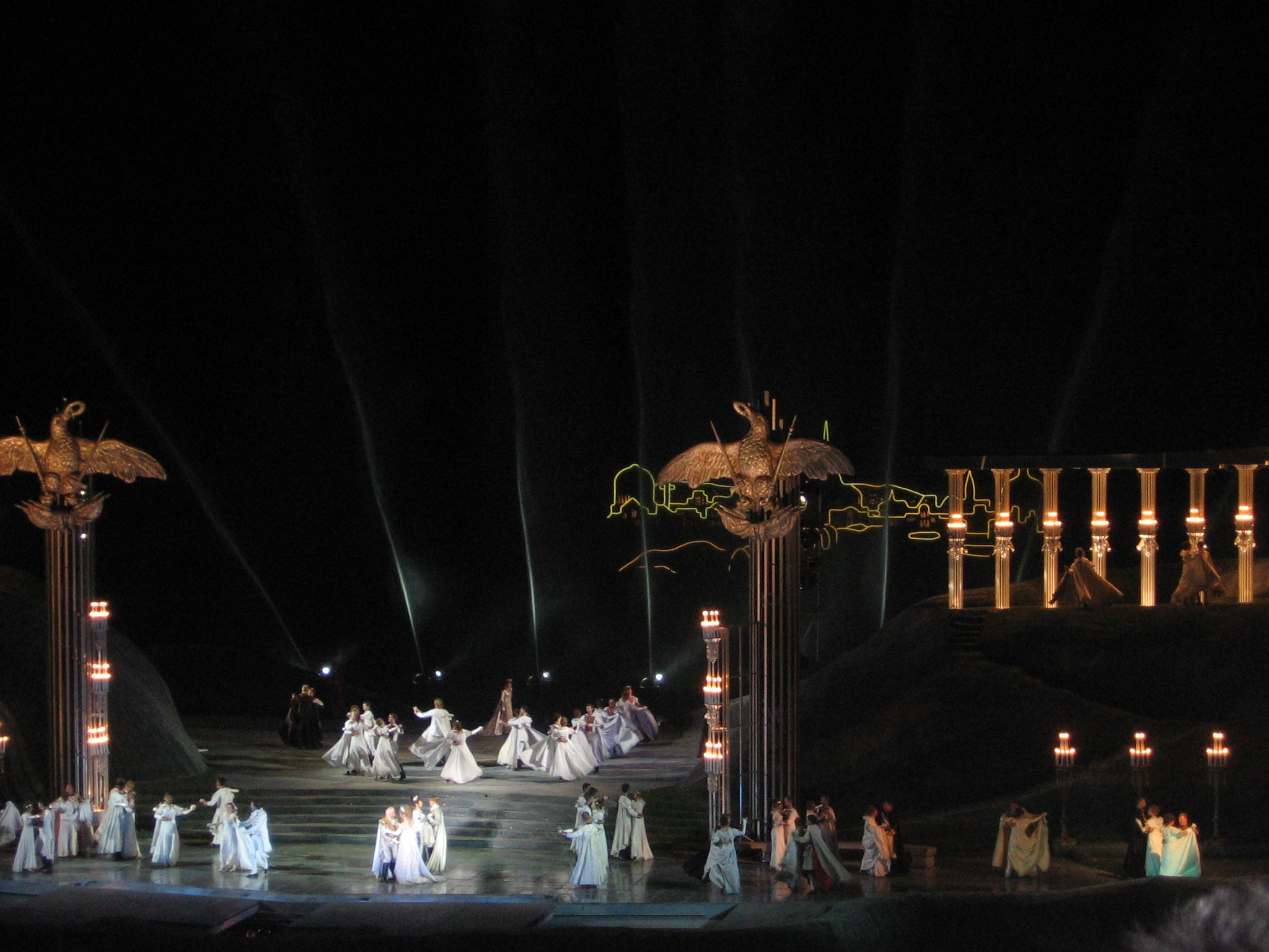 Performance of the operetta Wiener Blut during the 2007 Moerbisch Lake Festival, Austria.